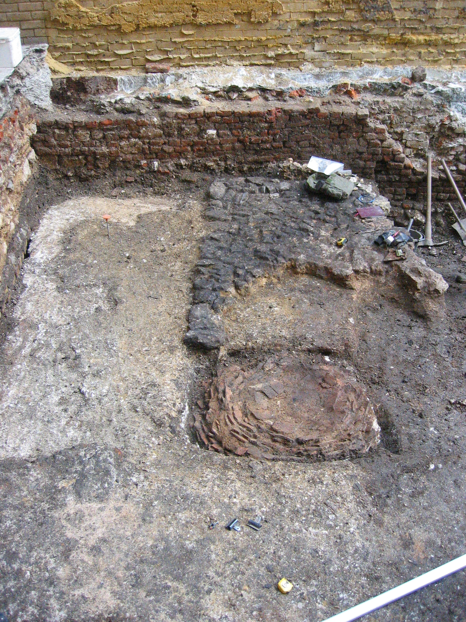 medievel kitchen and tile hearth